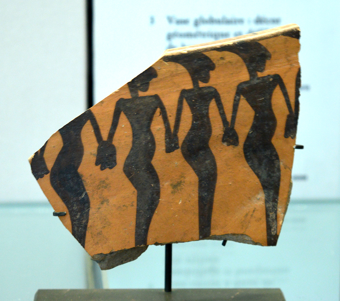 Dancers on a piece of ceramic from CheshmeAli, Iran, 5000 BC, Louvre